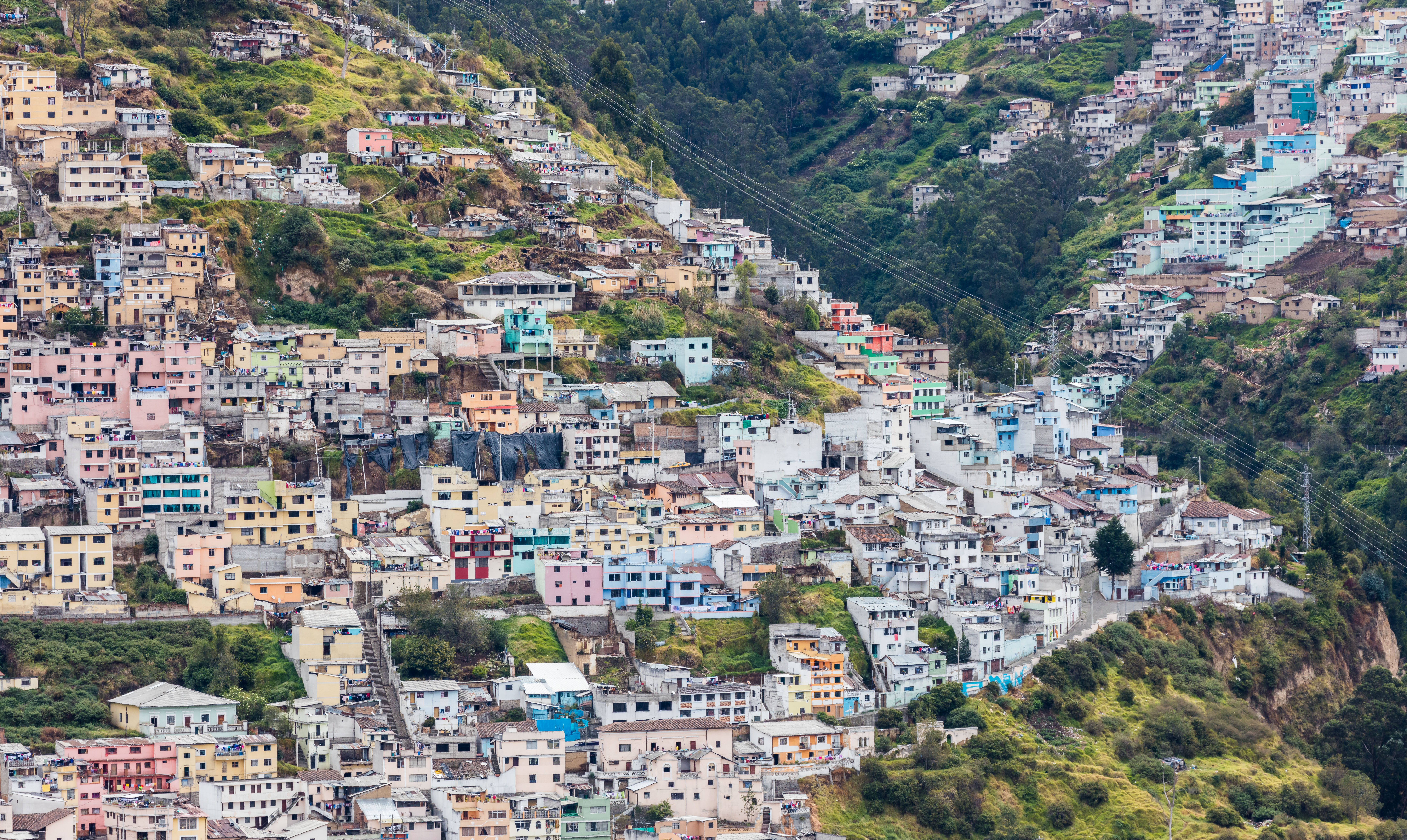 View of Quito from El Panecillo, Ecuador